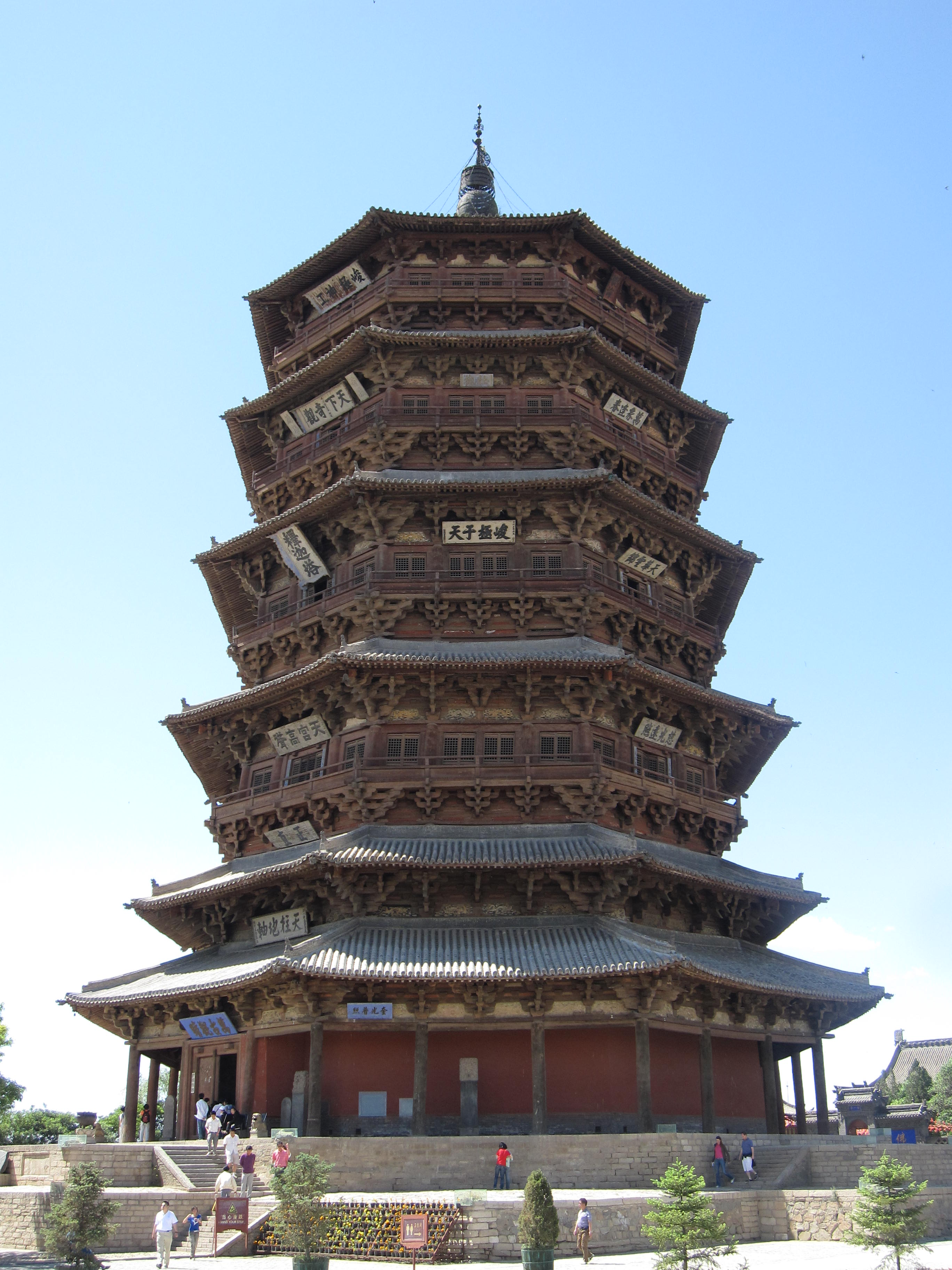 A view of the 木塔 (Pagoda of Fogong Temple) taken from the SE